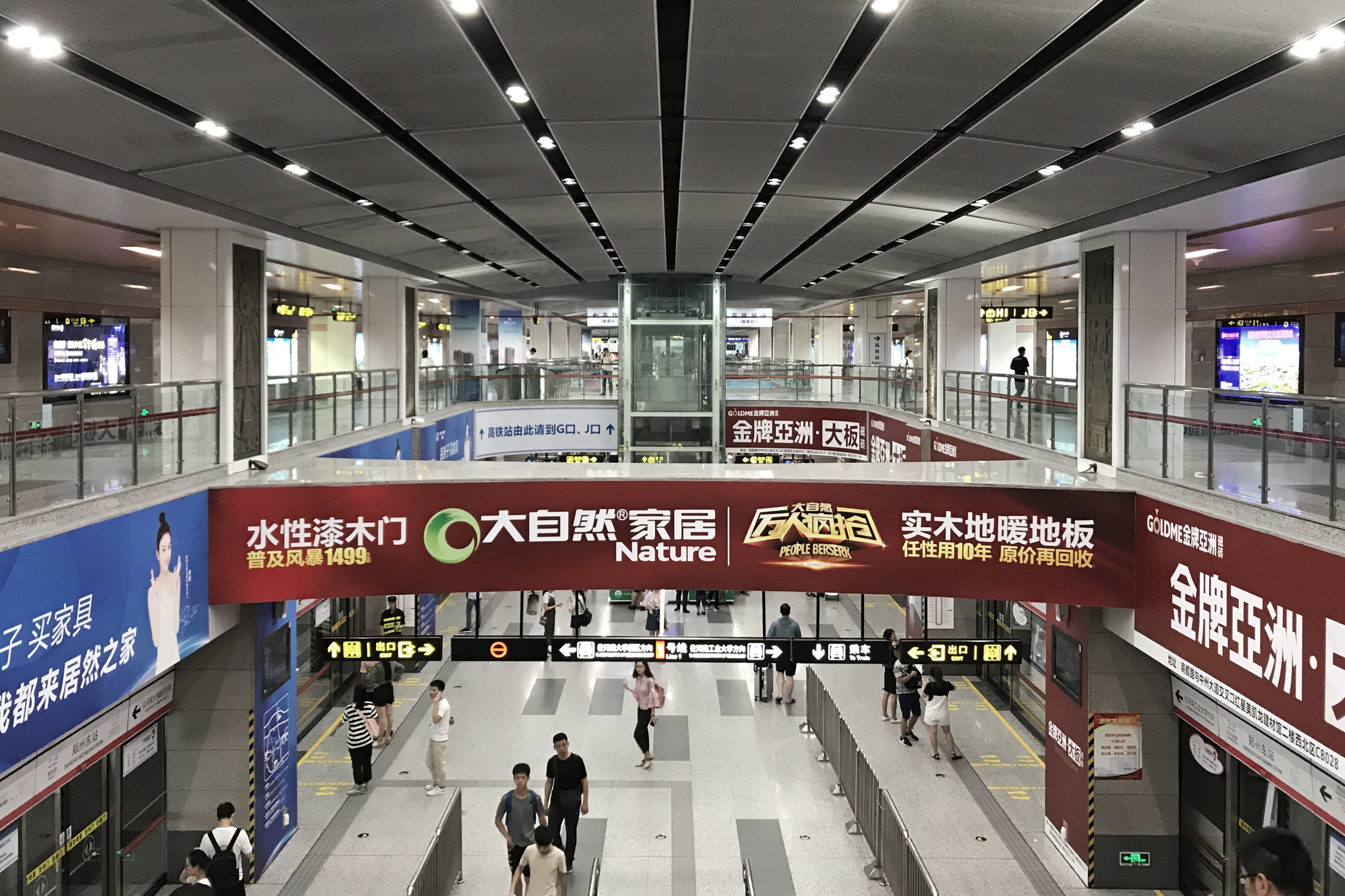 Zhengzhou East Railway Station metro station